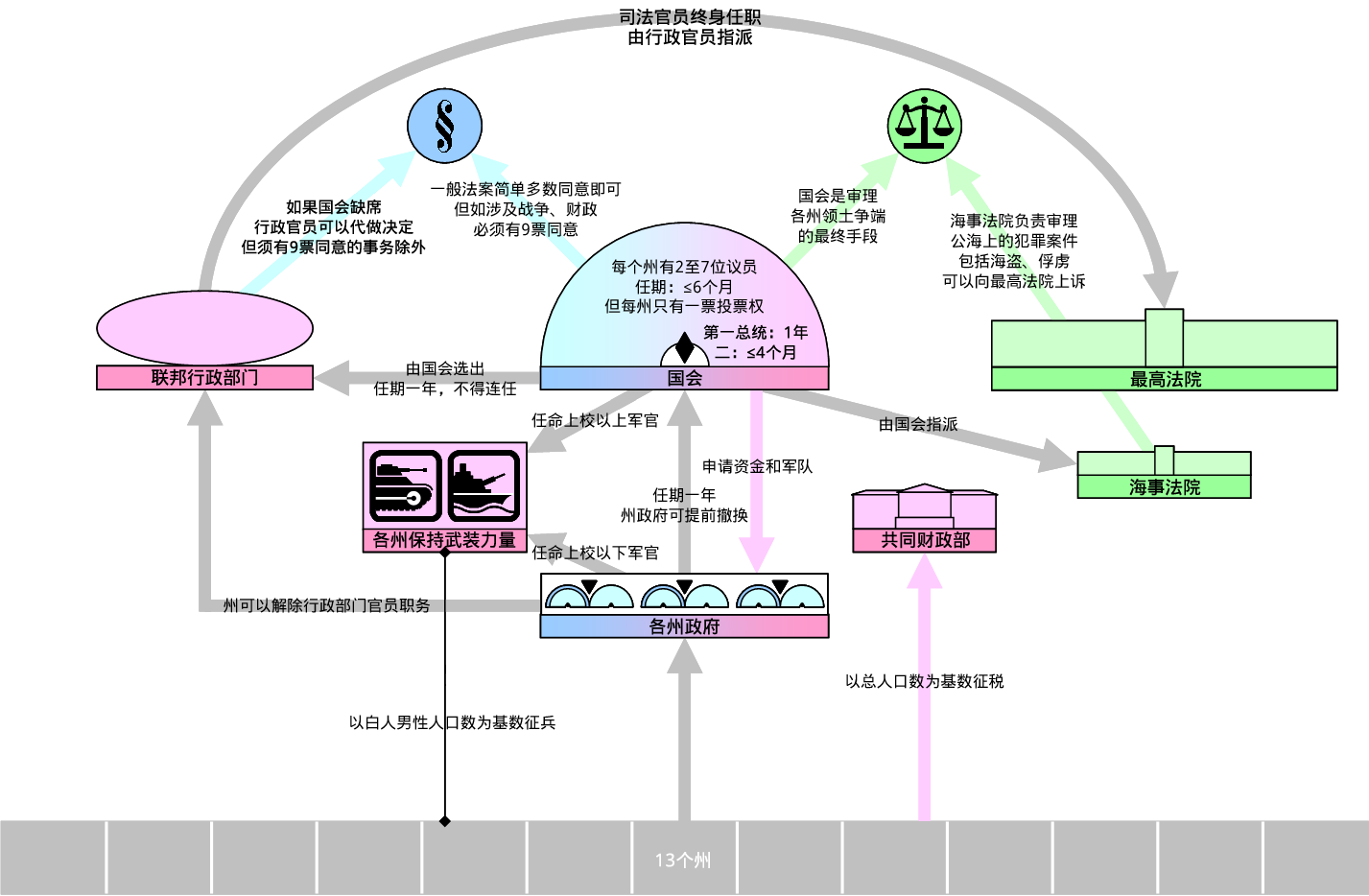 A diagram of the New Jersey Plan presented at the Constitutional Convention in the United States in 1787.